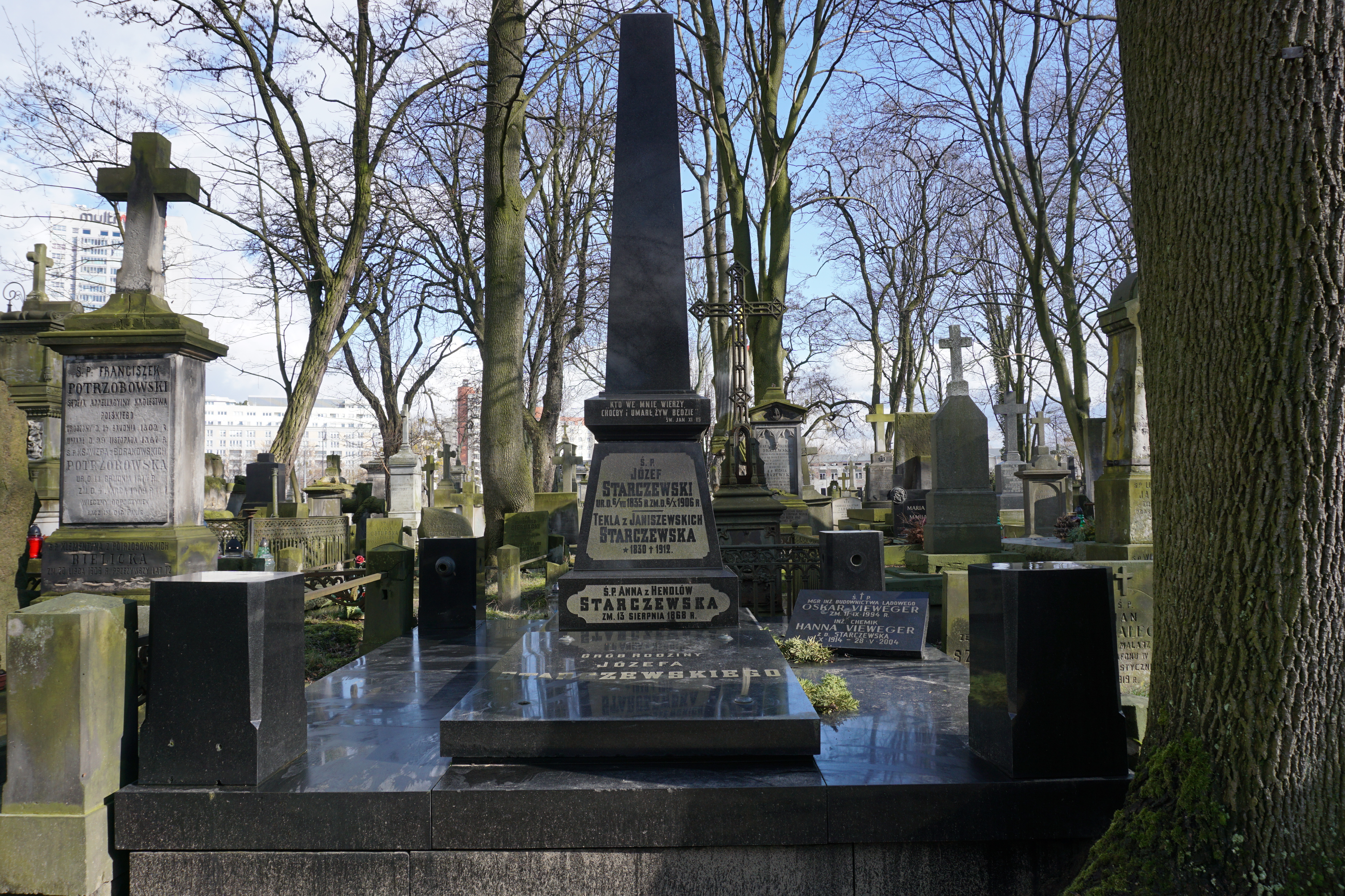 The grave of Feliks Władysław Starczewski at the Powązki Cemetery (section 180, row 6, grave 9, 10)